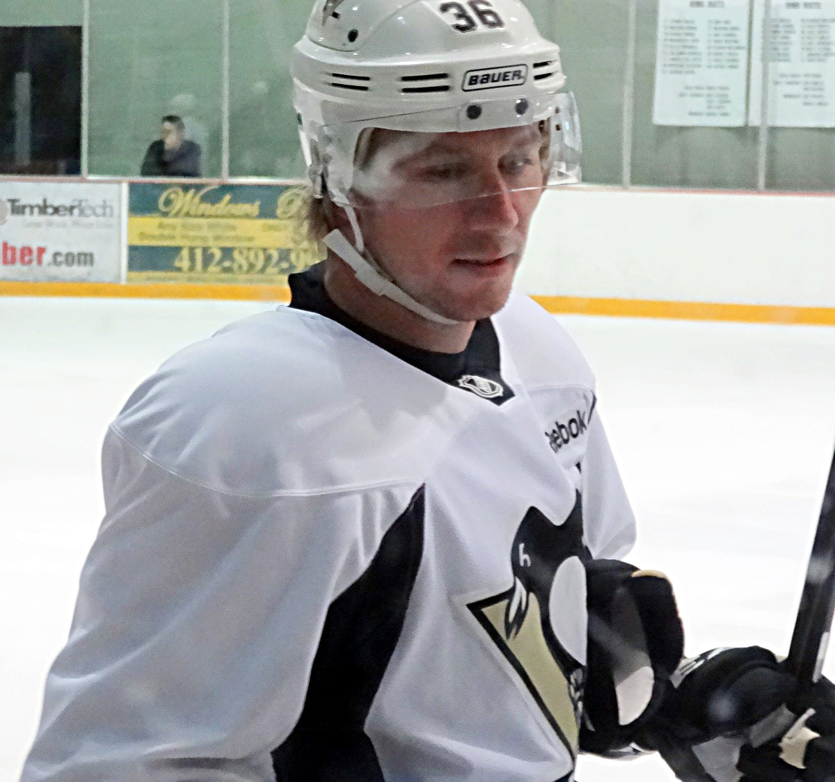 Pittsburgh Penguins forward Jussi Jokinen practices with the team at the Iceoplex at Southpointe in Canonsburg, PA, April 26, 2013.